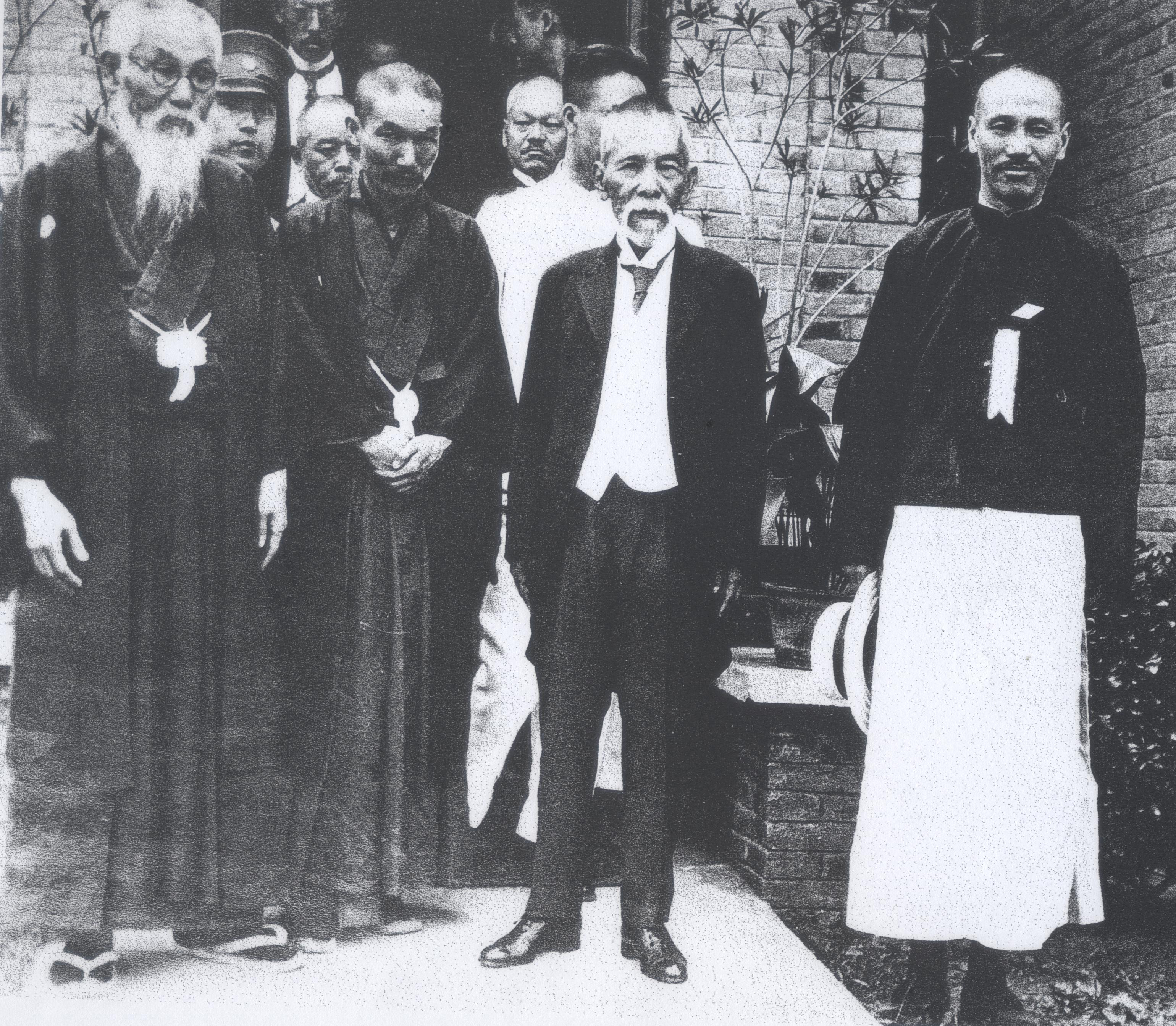 The future Chinese President Chiang Kai-shek (蒋介石, right) pays visit to his Japanese friends, right-wing political leader Mitsuru Tōyama (頭山満, far left) and the future Prime Minister Tsuyoshi Inukai (犬養毅, center).